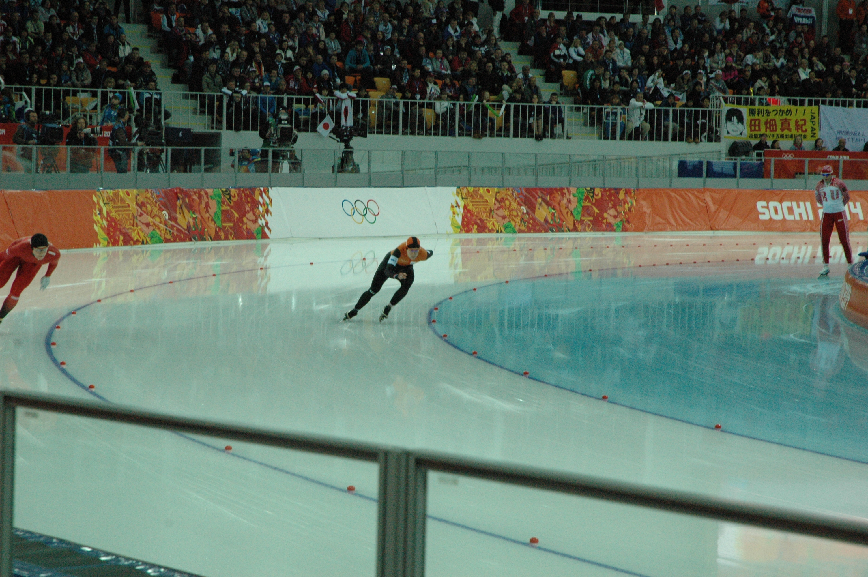 Women's 1500m, 2014 Winter Olympics, Ireen Wüst